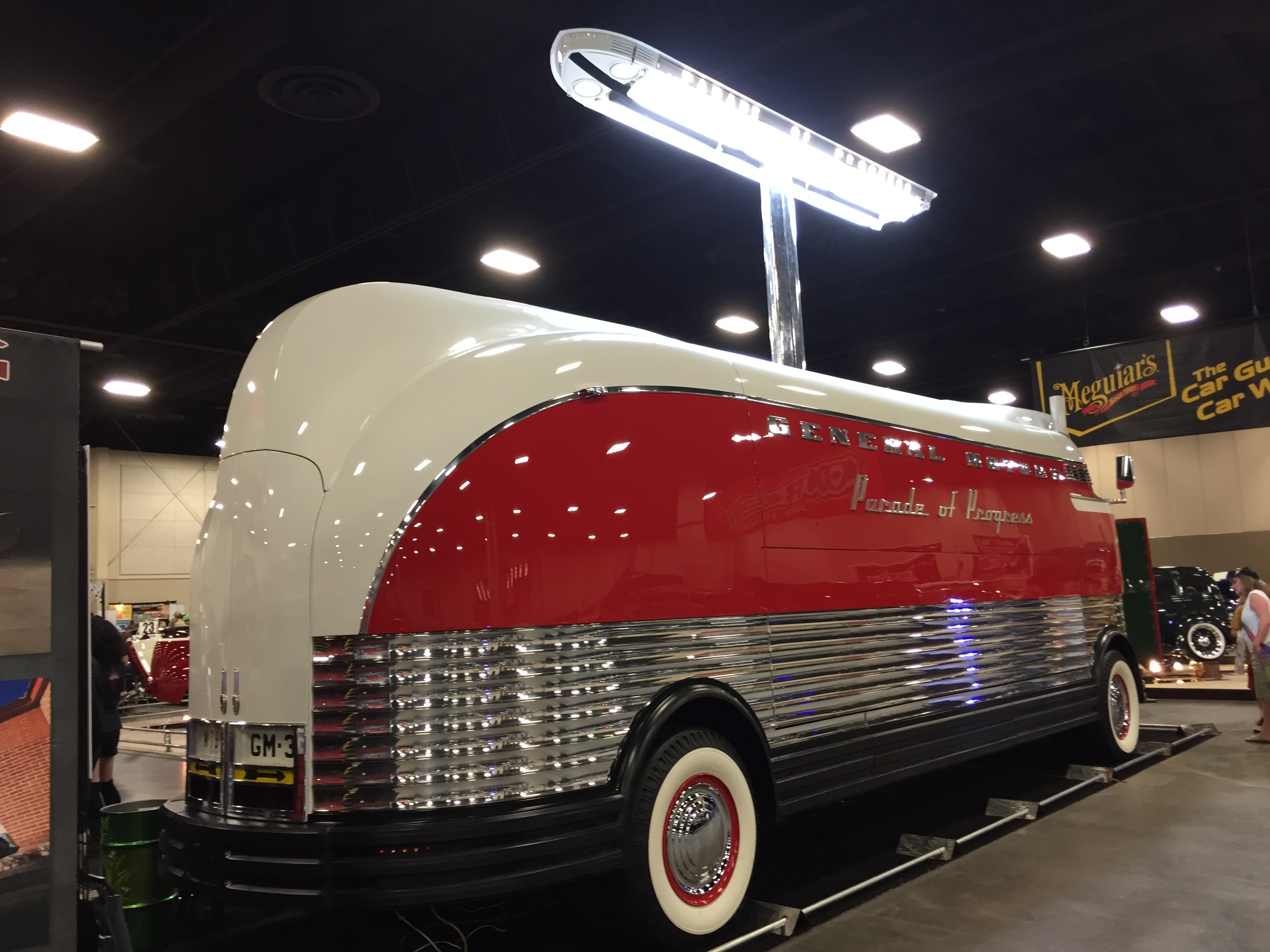 Rear left Futurliner #3 on display in SLC, UT